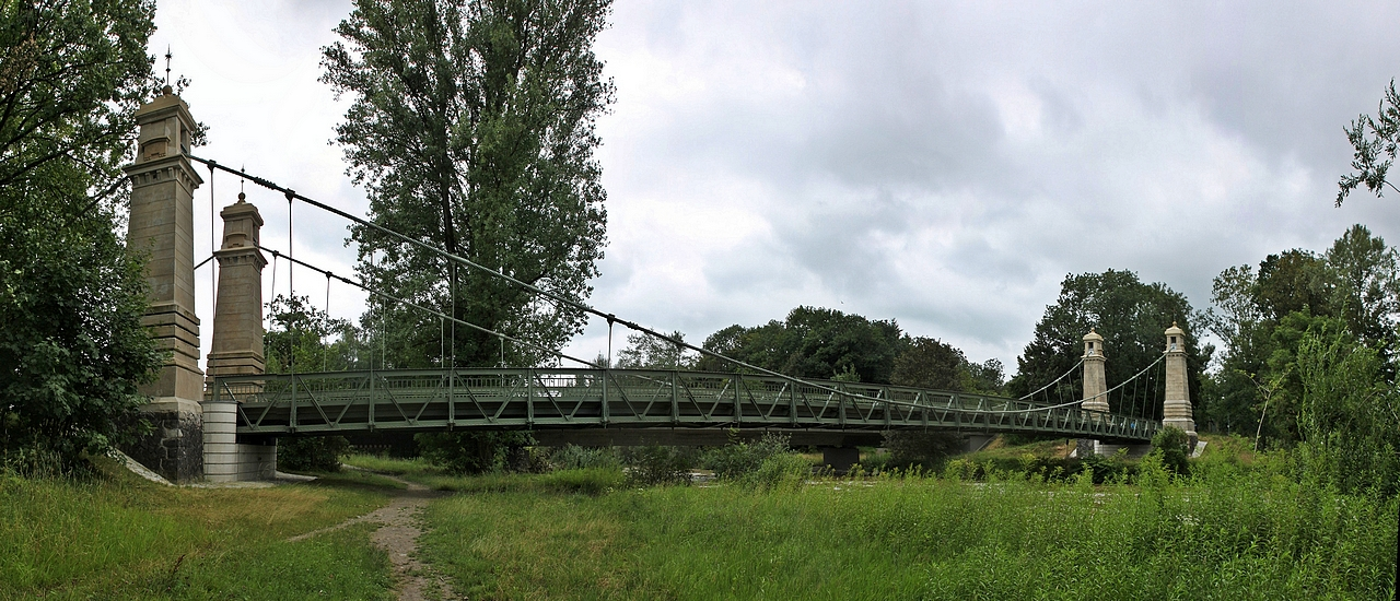 This image shows the suspension bridge over the river Argen in Langenargen. The bridge was built 1896/97.